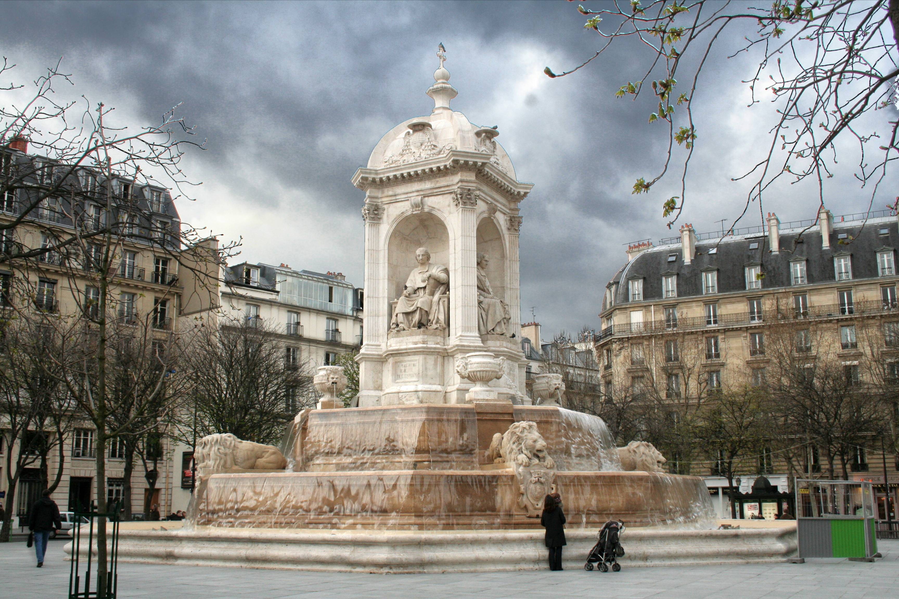 Statues of Jean-Baptiste Massillon (left) and François Fénelon (right), orning the Saint-Sulpice fountain in Paris, France.